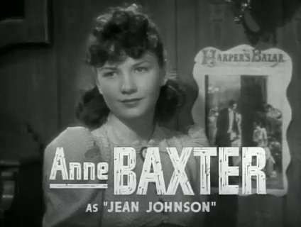 Anne Baxter in 20 Mule Team (1940), directed by Richard Thorpe.